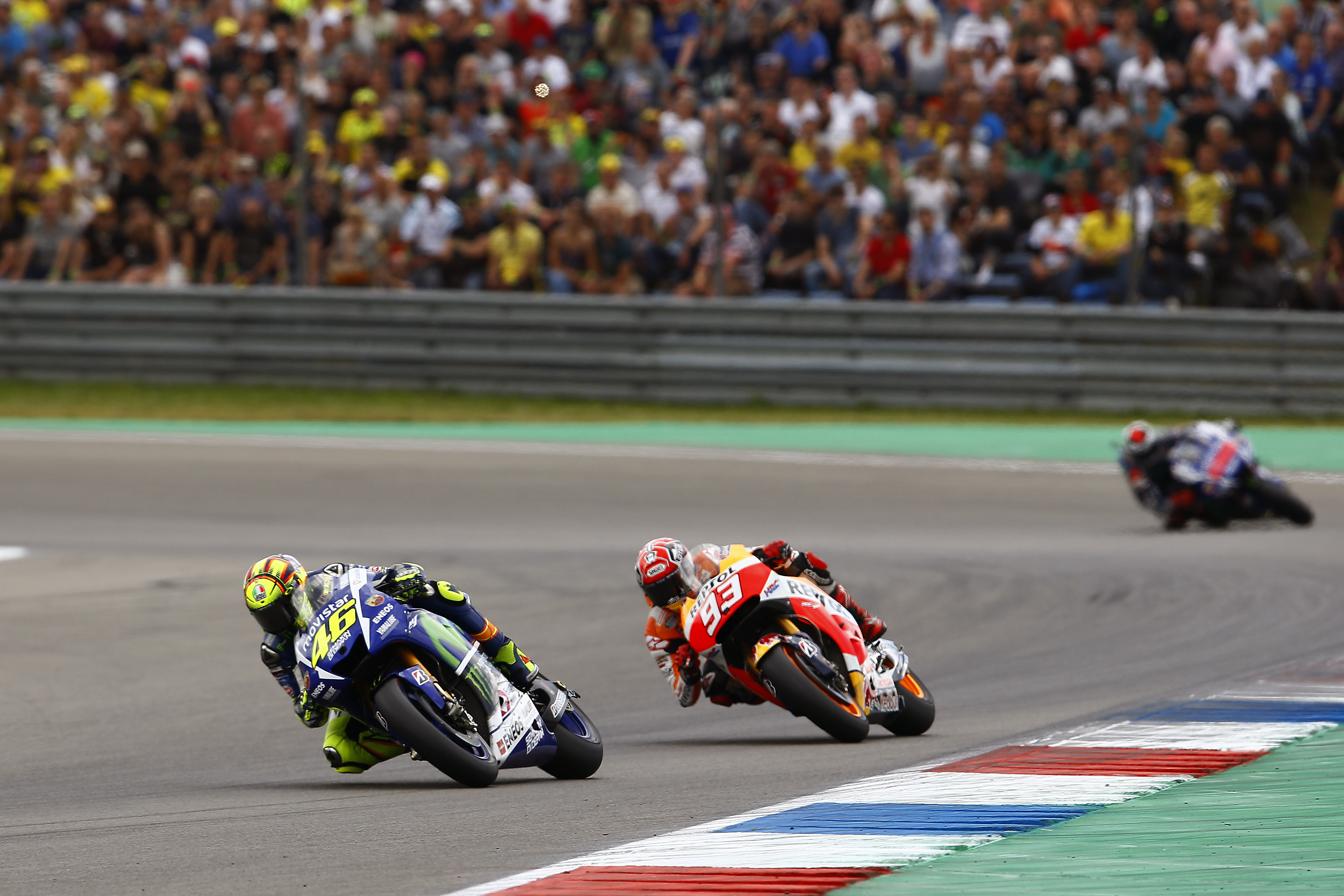 Valentino Rossi, riding his Movistar Yamaha, being followed by the Repsol Honda of Marc Márquez and the other Movistar Yamaha of Jorge Lorenzo at the 2015 Dutch TT in Assen.